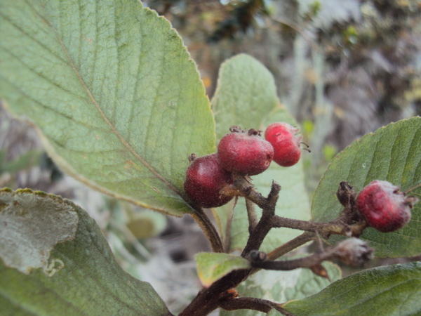 Photo taken near Pamarchacrín community in south Ecuador. June 2011 at 2500 m a.s.l.